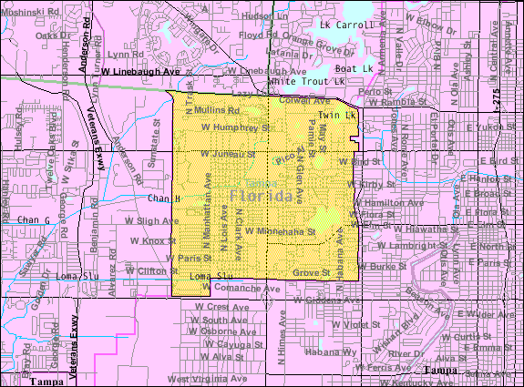 U.S. Census 2000 reference map for Egypt Lake-Leto Category:Census Bureau images Category:Florida maps Commons:Category:PD US Census Commons:Category:Maps of Florida